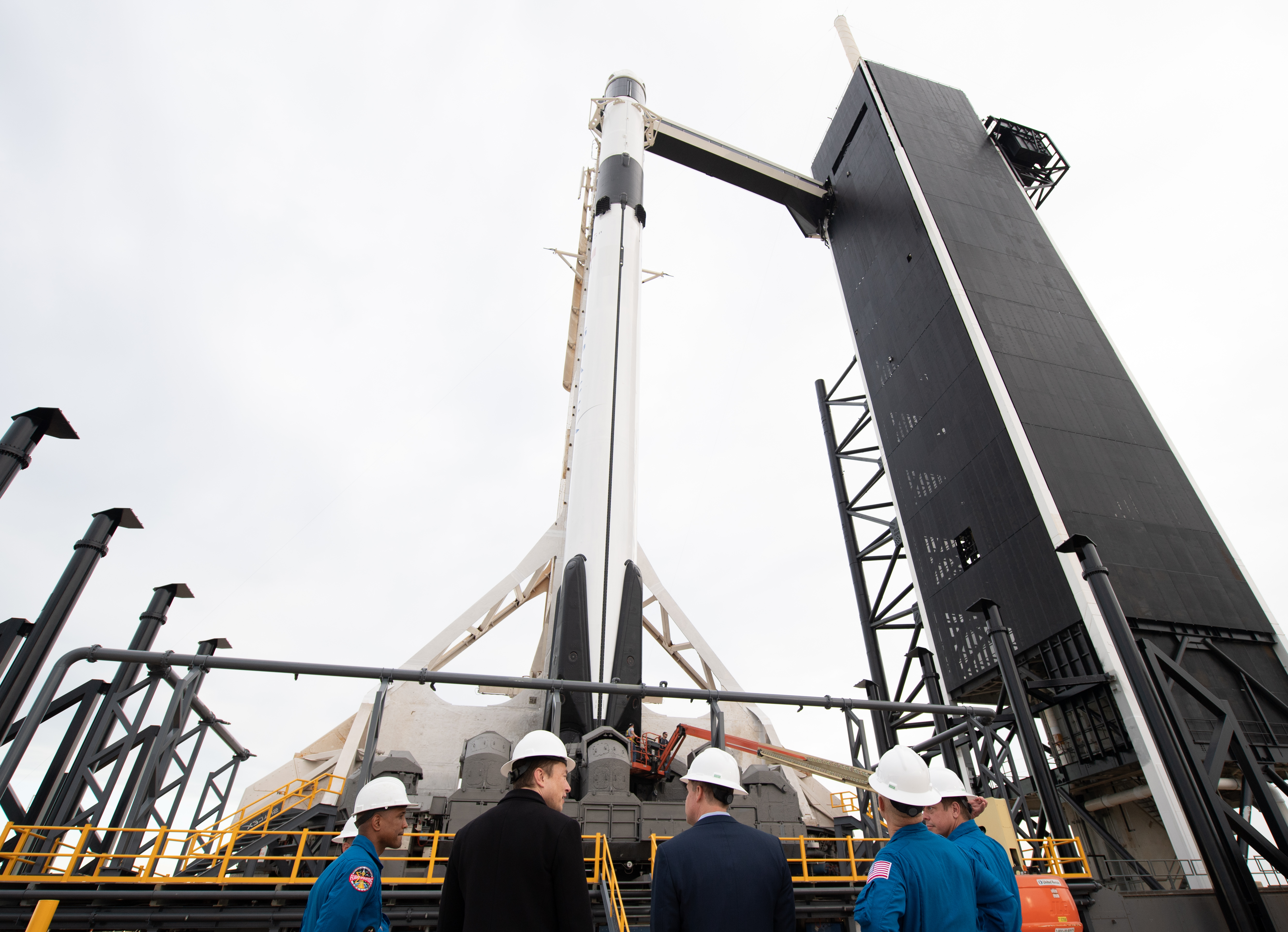 SpaceX CEO and Chief Designer Elon Musk, second from left, NASA Administrator Jim Bridenstine, third form right, and NASA astronauts Mike Hopkins, Victor Glover, Doug Hurley and Bob Behnken are seen with the SpaceX Falcon 9 rocket with the company's Crew Dragon spacecraft onboard during a tour of Launch Complex 39A before the early Sunday morning launch of the Demo-1 mission, Friday, March 1, 2019 at the Kennedy Space Center in Florida. The Demo-1 mission launched at 2:49am ET on Saturday, March 2 and was the first launch of a commercially built and operated American spacecraft and space system designed for humans as part of NASA's Commercial Crew Program. The mission will serve as an end-to-end test of the system's capabilities. Hurley and Behnken are assigned to fly onboard Crew Dragon for the Demo-2 mission and Glover and Hopkins have been assigned to fly to the International Space Station on Crew Dragon's first operational mission. Photo Credit: (NASA/Joel Kowsky)